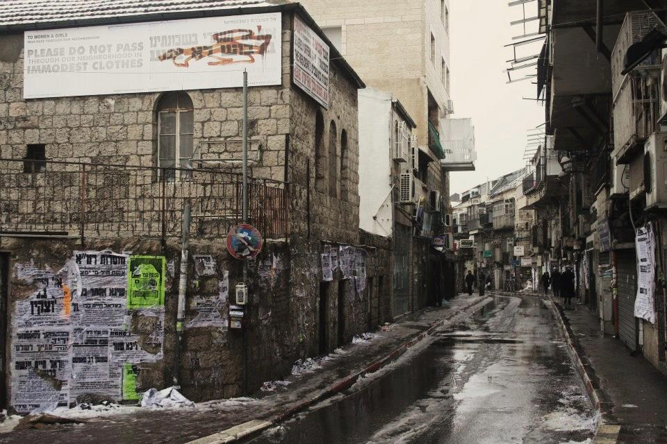 Mea Shearim and its Modesty Signs